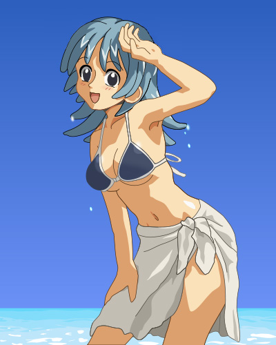 Illustration of fan service by Wikipe-tan with bikini.